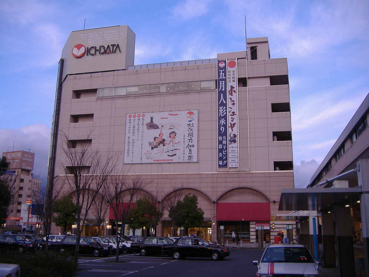 Ichibata Department Store(Matsue, Japan)